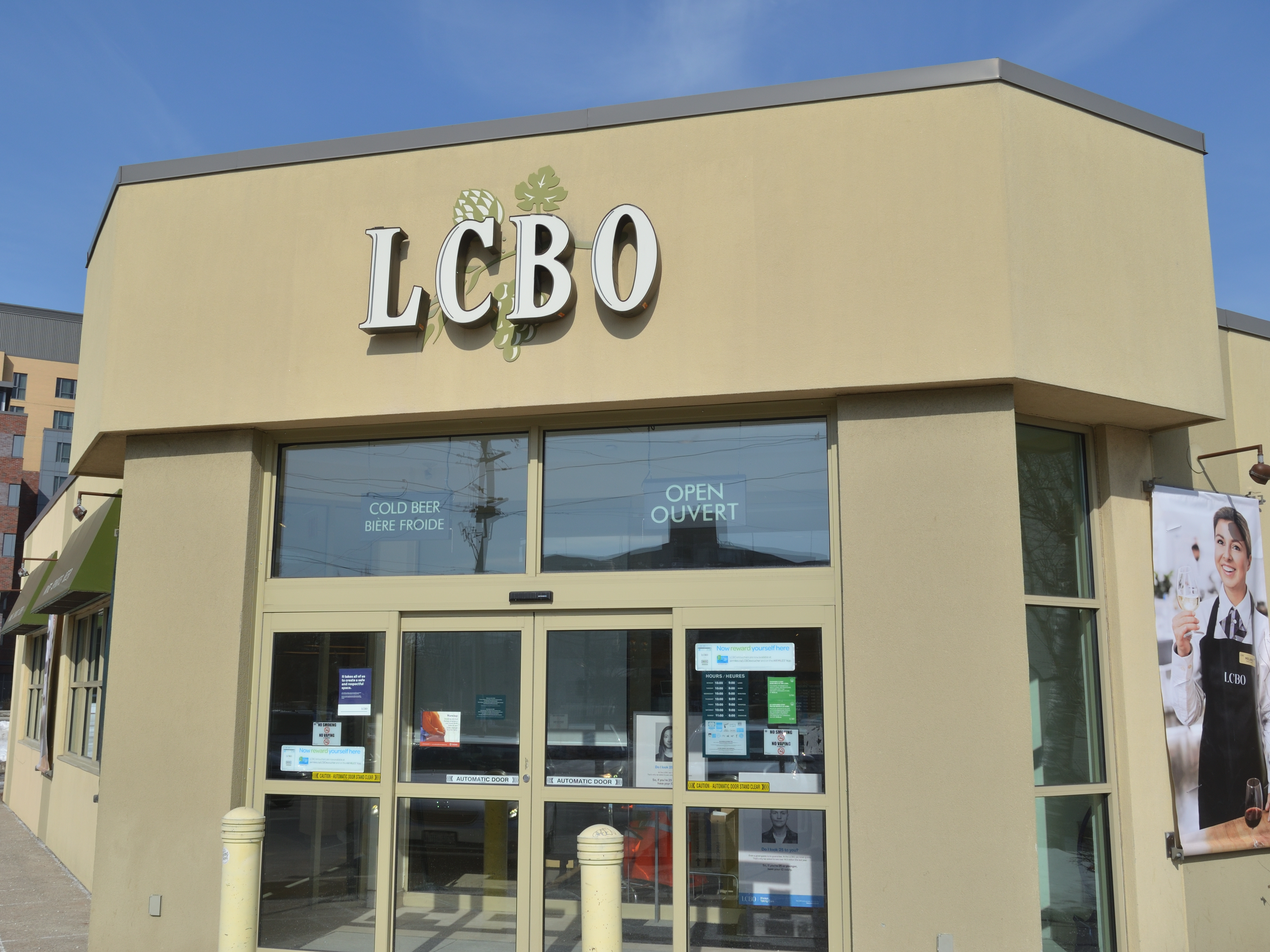 LCBO - Address: 10375 Yonge Street North, Richmond Hill, ON L4C 3C2